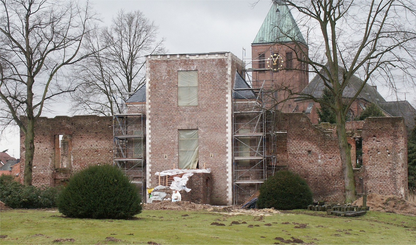 Haus Hertefeld - castle ruin